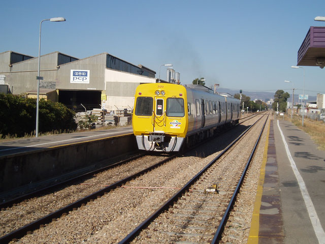 Kilkenny railway station, South Australia. TransAdelaide railcars 3119 & 3120 depart Kilkenny station with 14.05 Grange to Adelaide train. 19 May 2005.